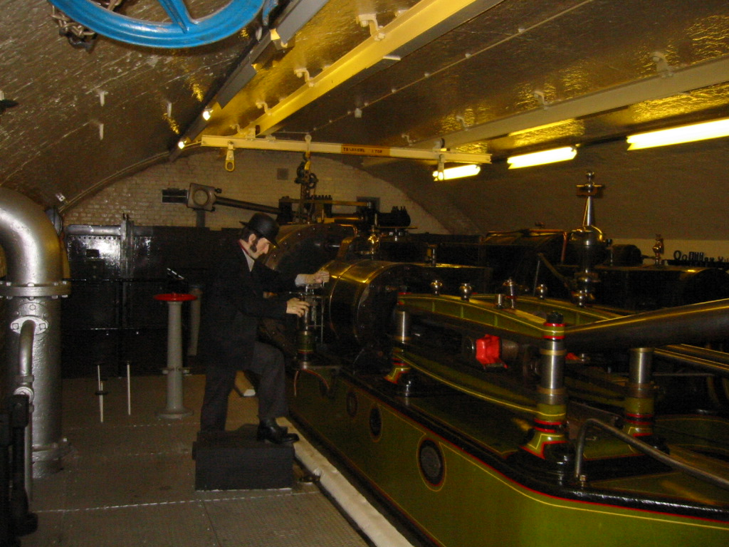 Inside Tower Bridge, mecanical operations